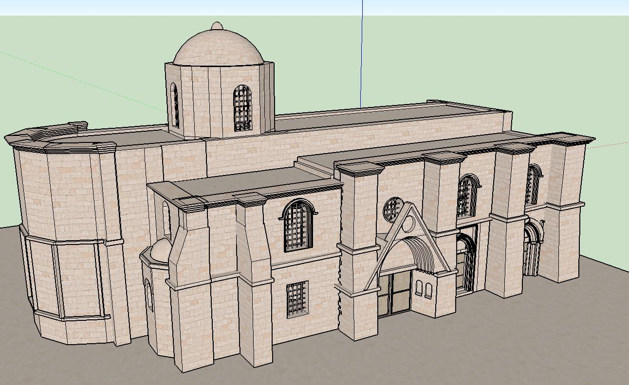 Bedesten, Nicosia, Cyprus. Model of the building north side.